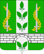 Coat of arms of Oktiabrskoye municipality (Tuapse, Krasnodar, Russia).